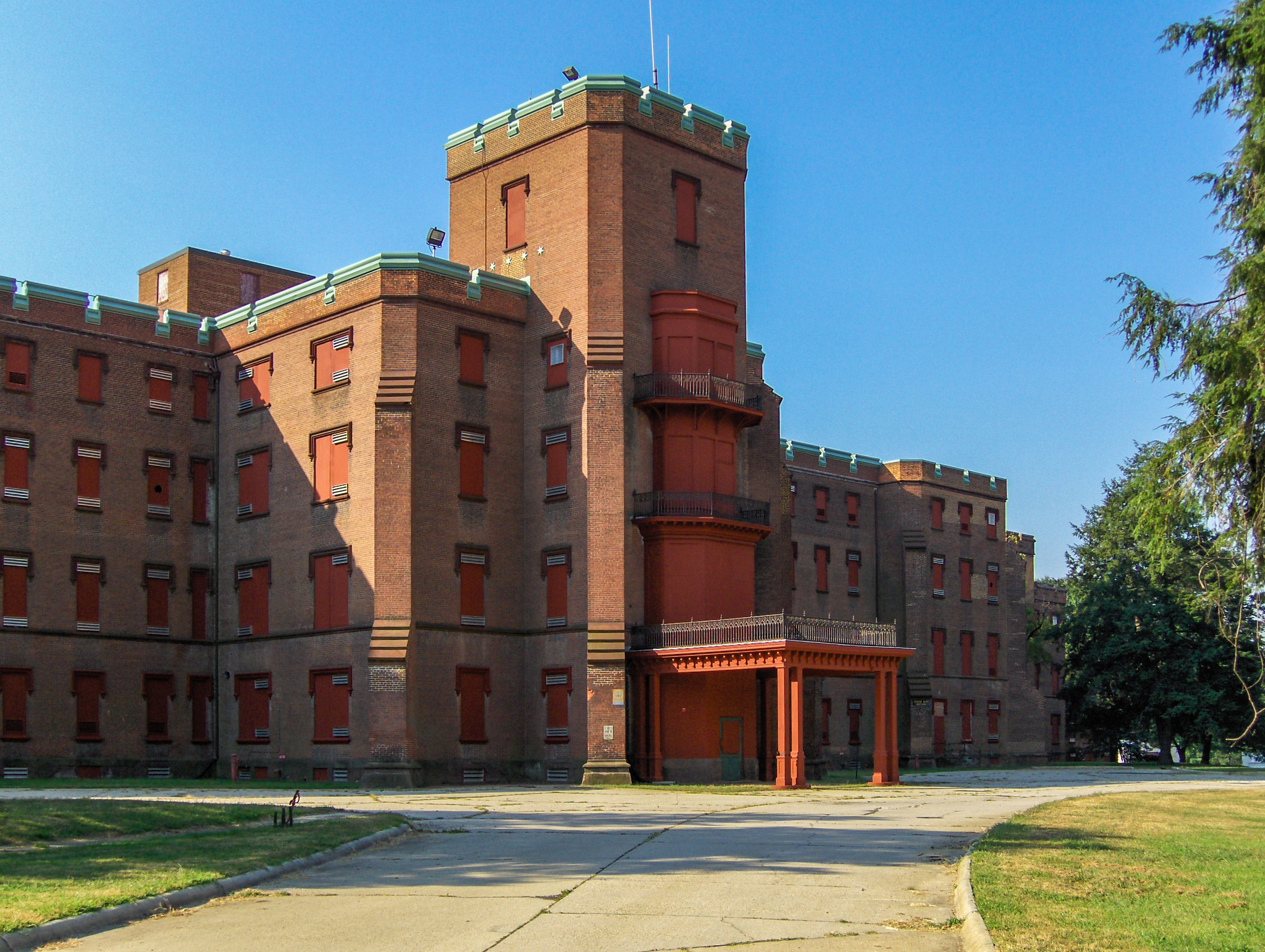 The Center Building at St. Elizabeths Hospital in Washington, D.C. Like most buildings at St. Elizabeths, this one has been abandoned. The Center Building is one of the oldest buildings on the campus, dating to the American Civil War era.